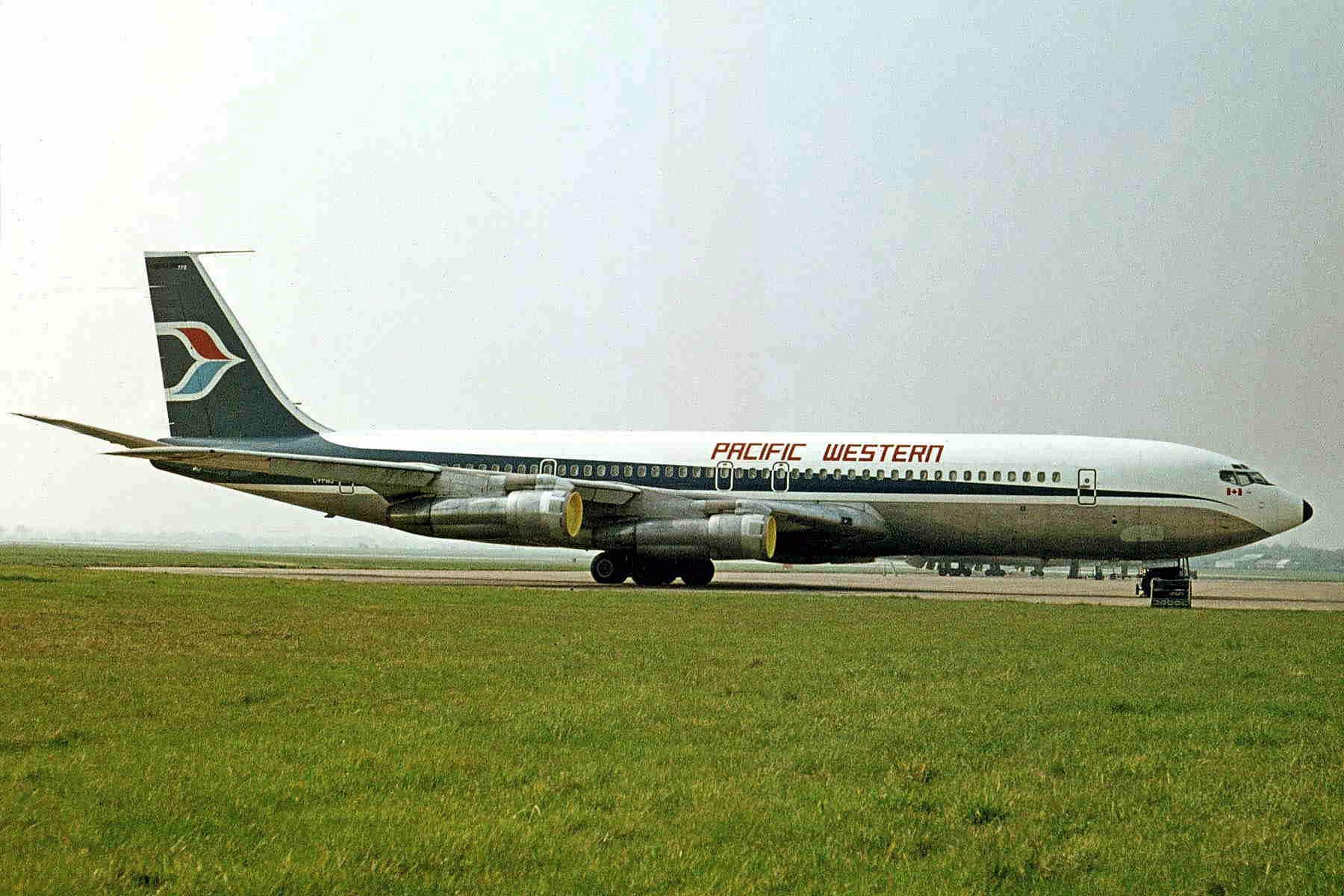 C-FPWJ B707-351C Pacific Western MAN